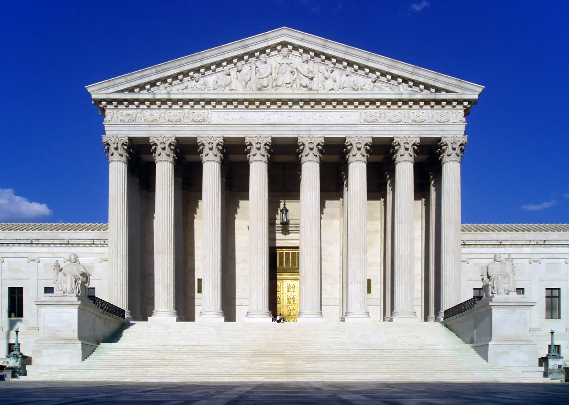 West face of the United States Supreme Court building in Washington, D.C.